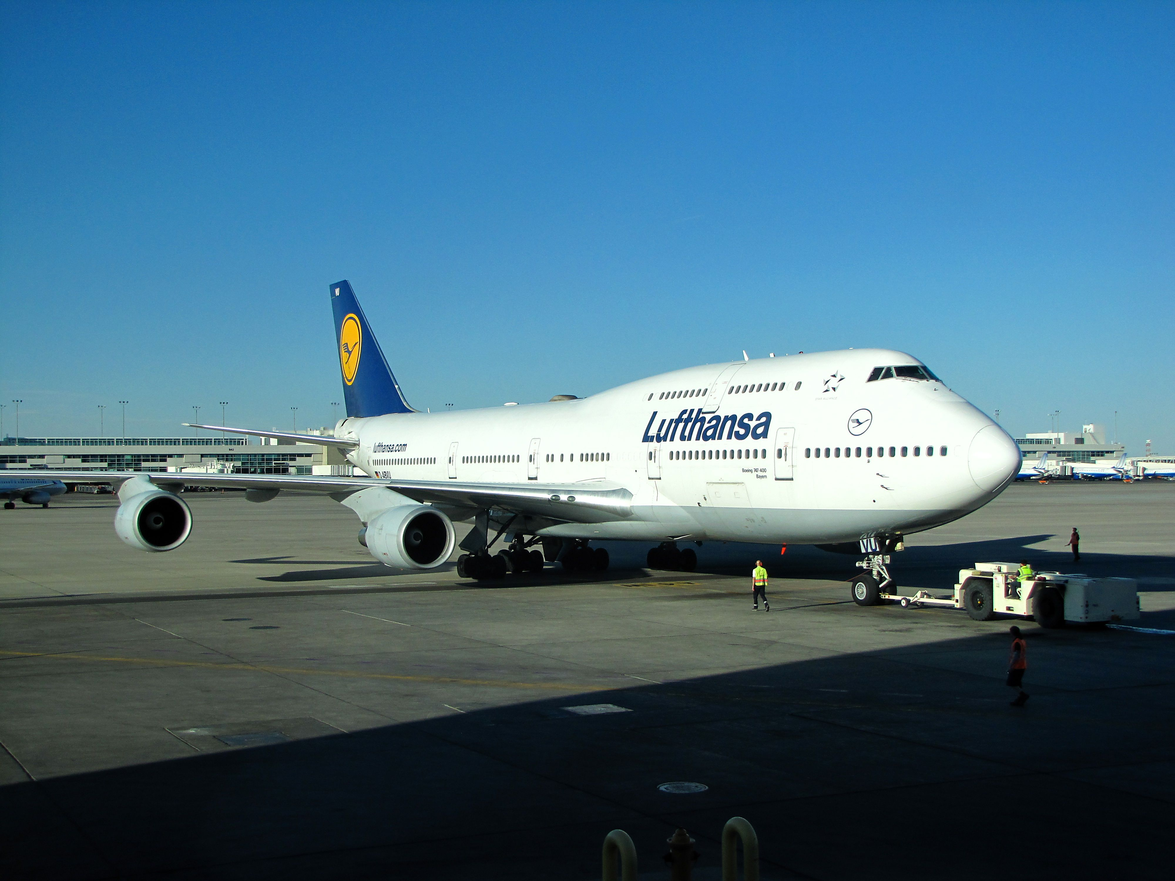 Lufthansa Boeing 747-400 Denver International Airport